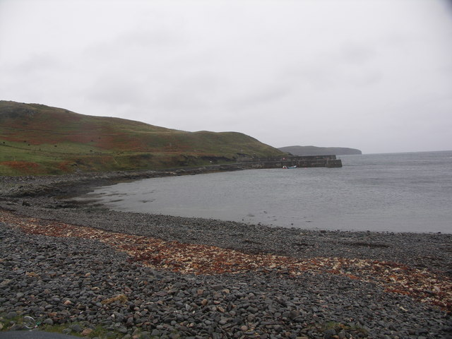 Pebble beach at Skerry Bay See also NC6663 for adjoining photo showing rocks in bay entrance. Island in far distance is Eilean nan Ron. Pier has memorial to local fisherman lost at sea.